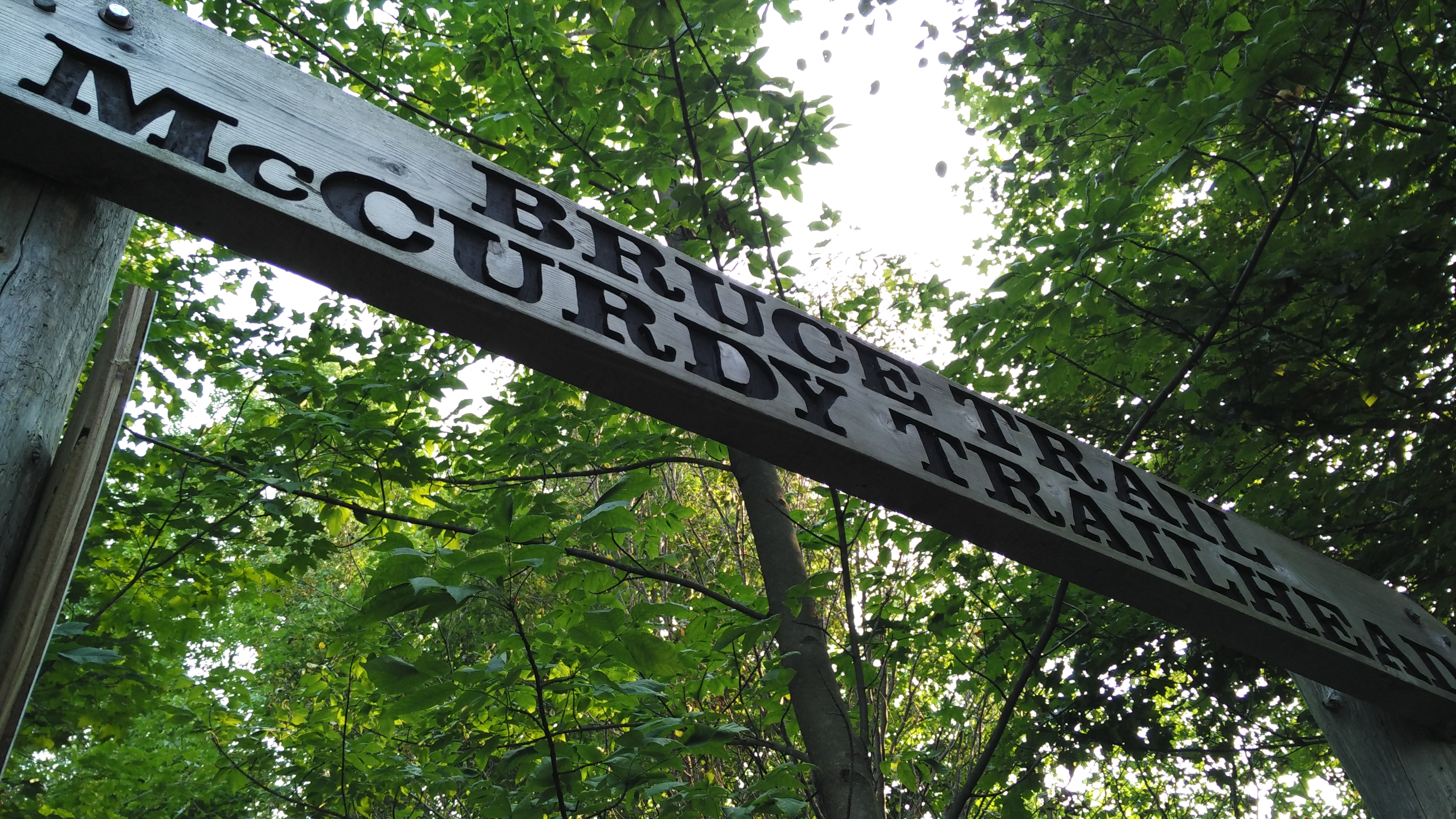 A Bruce Trails trailhead sign